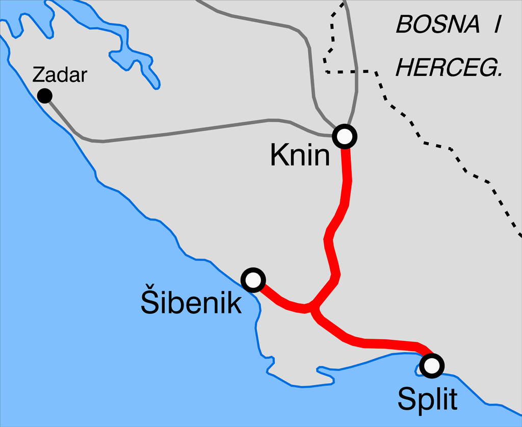 Map of the Dalmatian railway